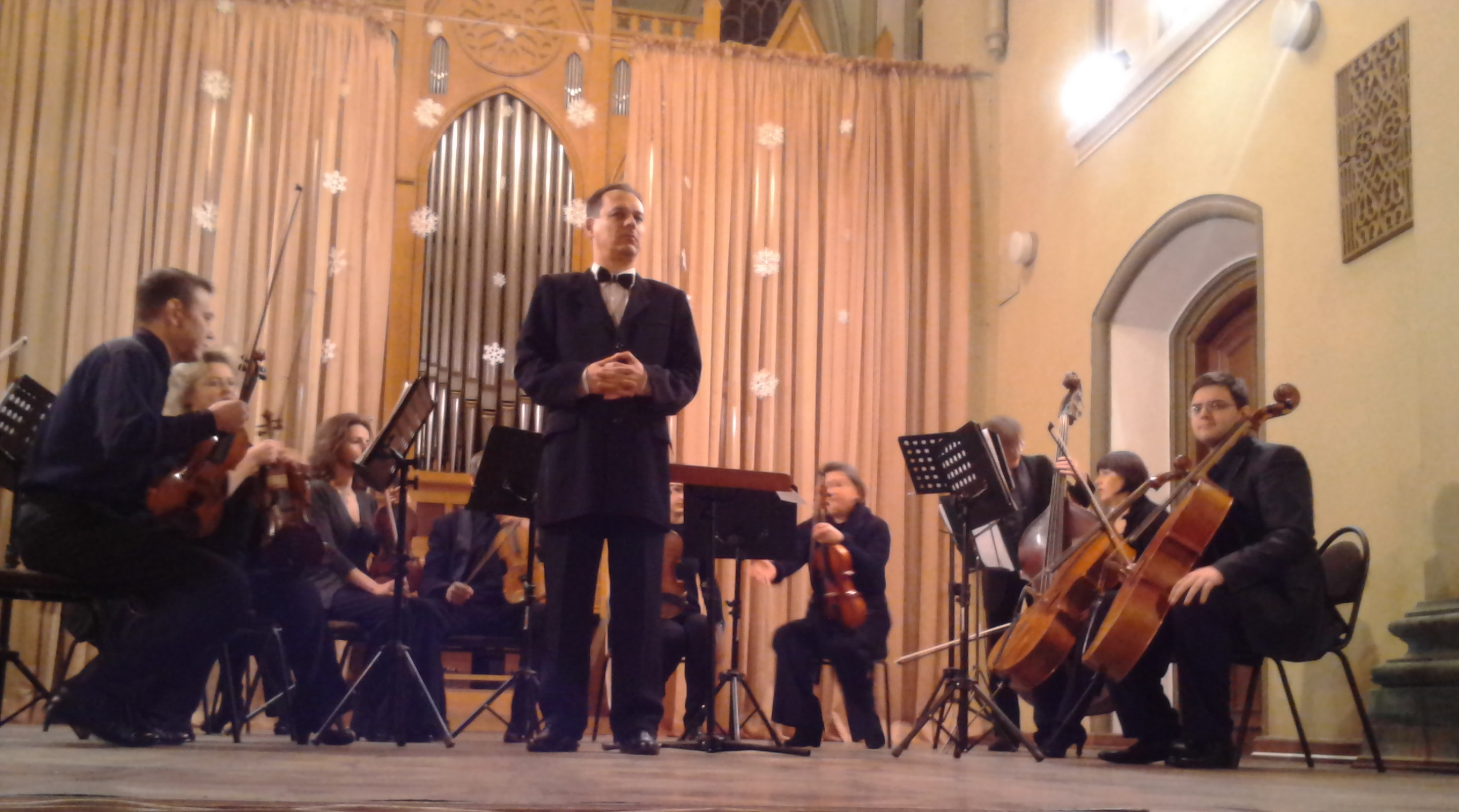 Chamber orkestra of Rivne region Philarmony of Ukraine